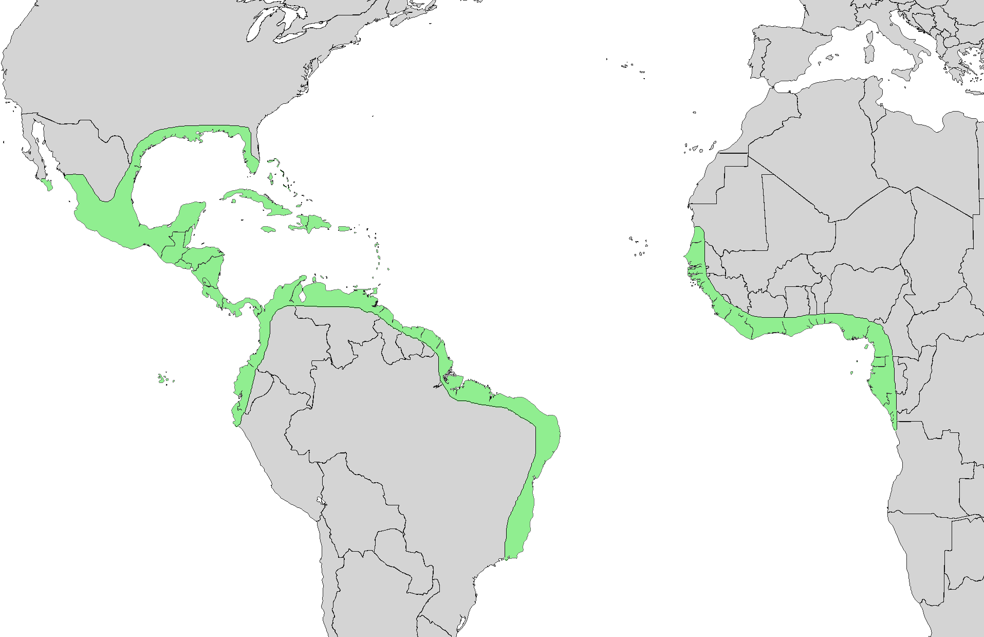 Distribution map for Avicennia germinans